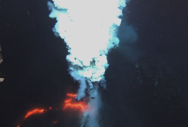 Incandescence and a plume rise above the Hades vent of West Mata, a submarine volcano rising to within 1174 m of the sea surface, in May 2009. The volcano is located in the northeastern Lau Basin at the northern end of the Tonga arc, about 200 km SW of Samoa. It was discovered during a November 2008 NOAA Vents Program expedition, when West Mata was found to be producing submarine hydrothermal plumes consistent with recent or ongoing lava effusion. A return visit in May 2009 documented explosive and effusive activity.